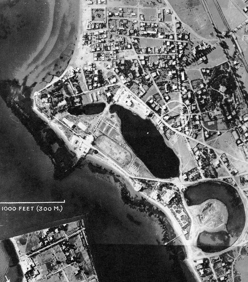 Aerial view of the Port at Carthage; visible Punic sea ports: rectangular for commercial shipping, and the circular one for warships